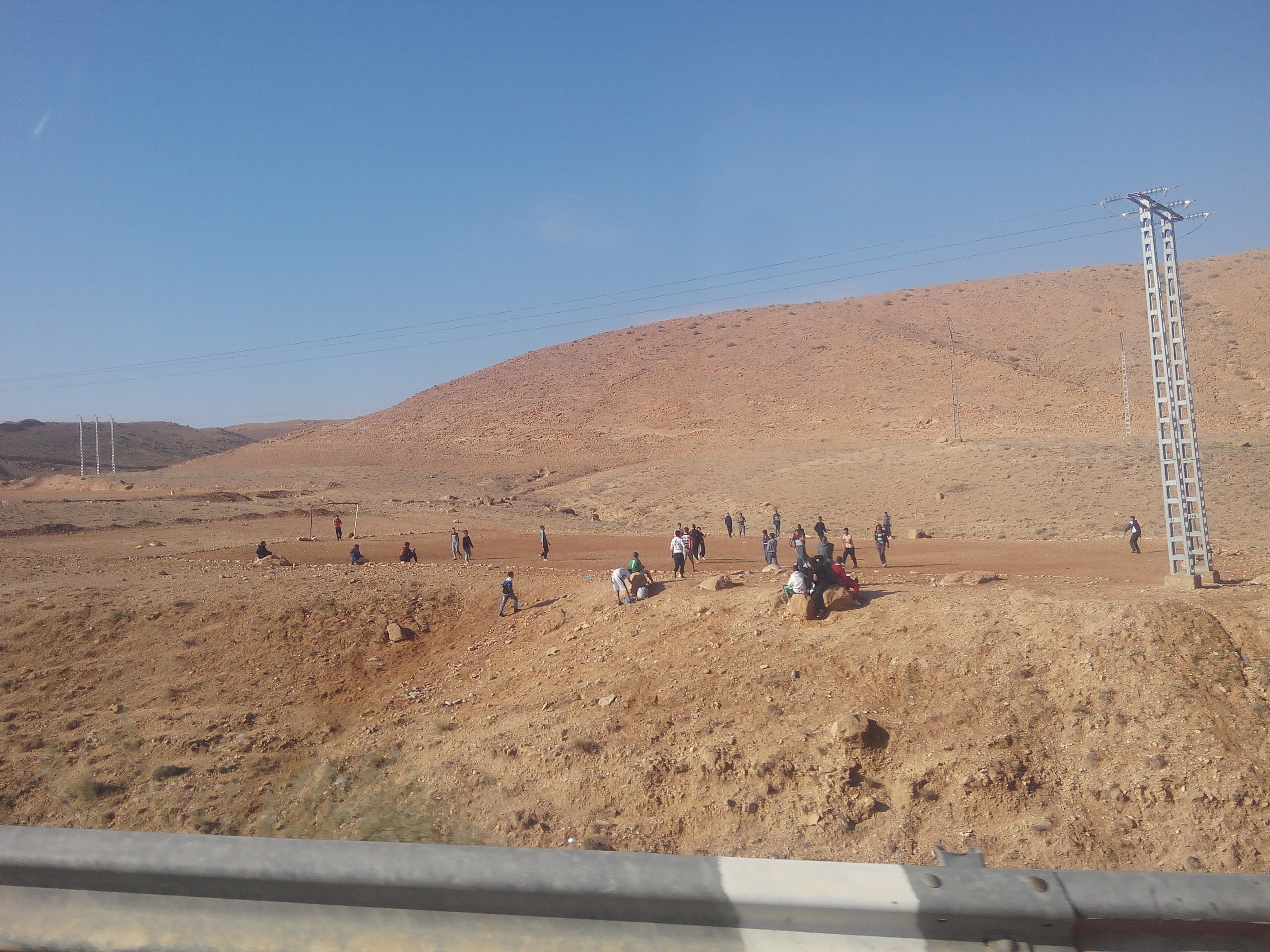 Kids from south (desert) playing football/ soccer! This is an image with the theme "Africa on the Move or Transport" from: Algeria